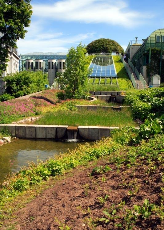 University Library in Warsaw